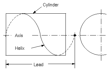 Leads